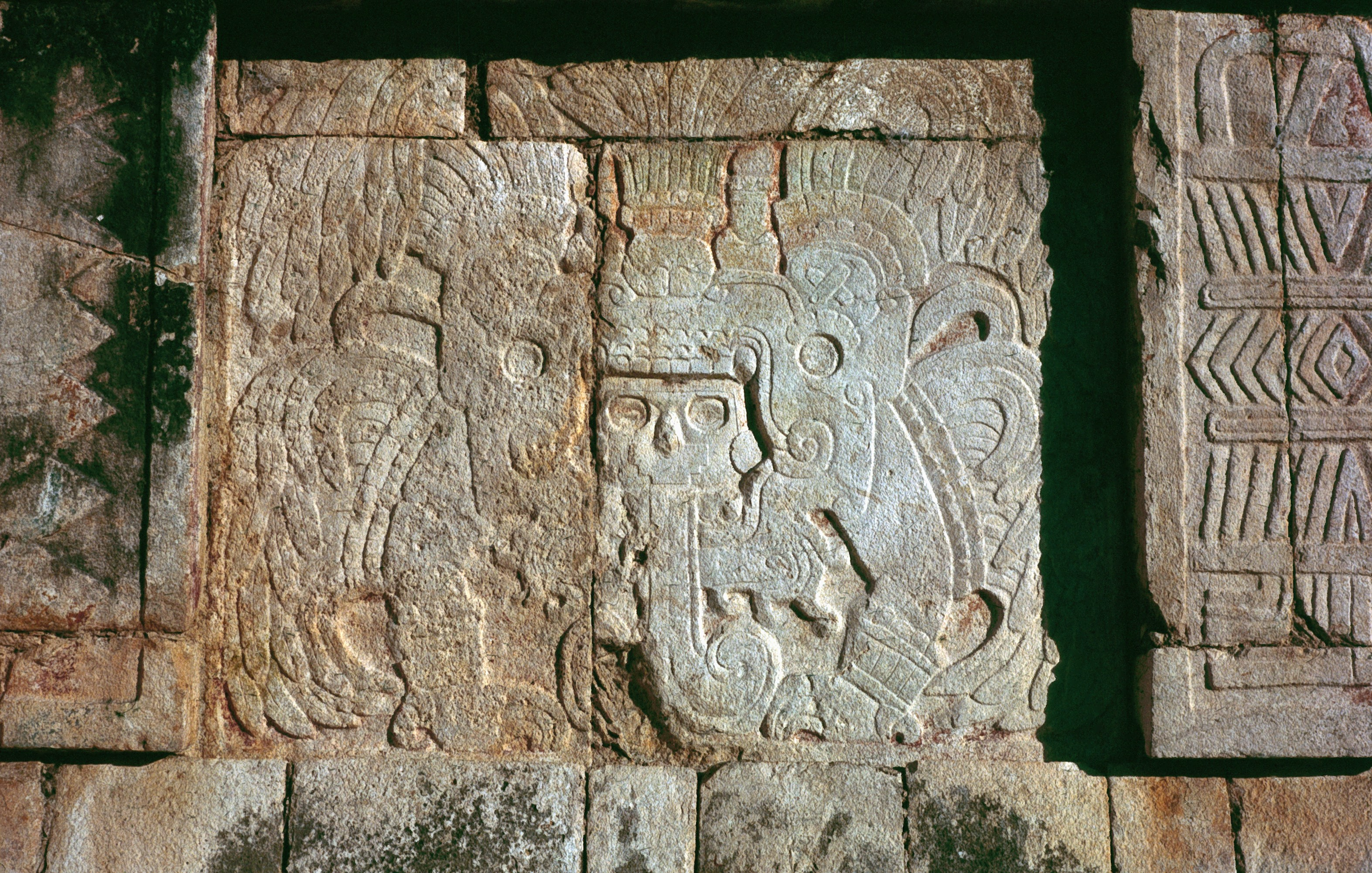 Chichen Itza, Yucatan, Mexico: Venus platform